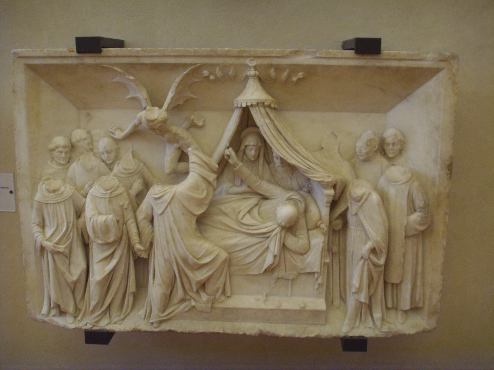 San Salvi museum, works by Benedetto da Rovezzano, in Florence, Italy